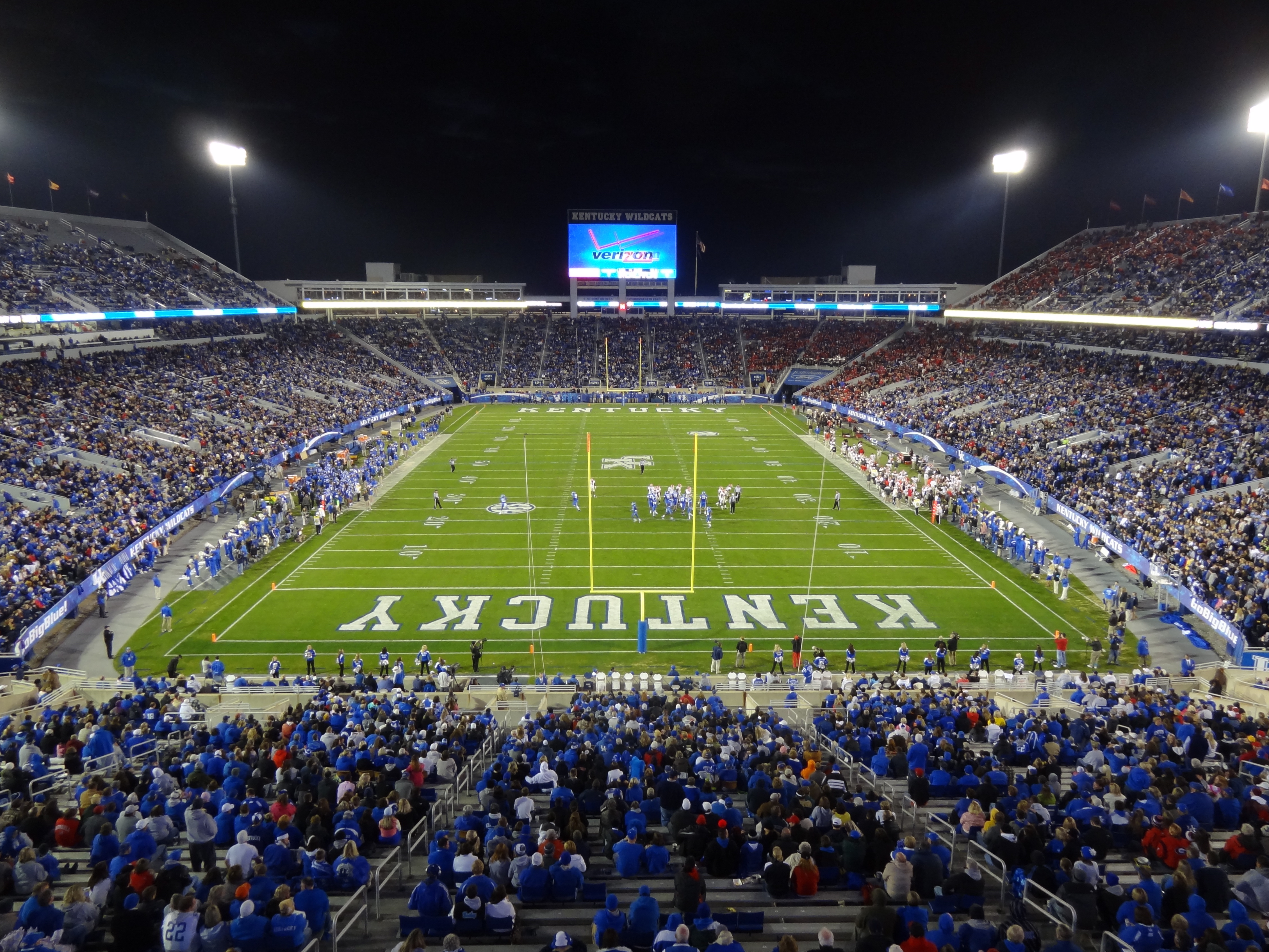 Commonwealth Stadium - Georgia at UK, October 2012 Flickr Tags: commonwealth stadium kentucky UK georgia sec football college football college.